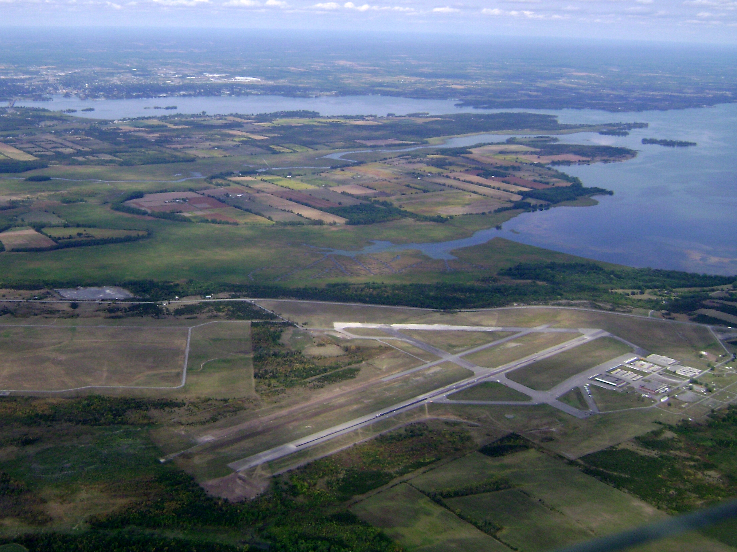 Mountain View Airport (military), Prince Edward County, Ontario, Canada, from the south.